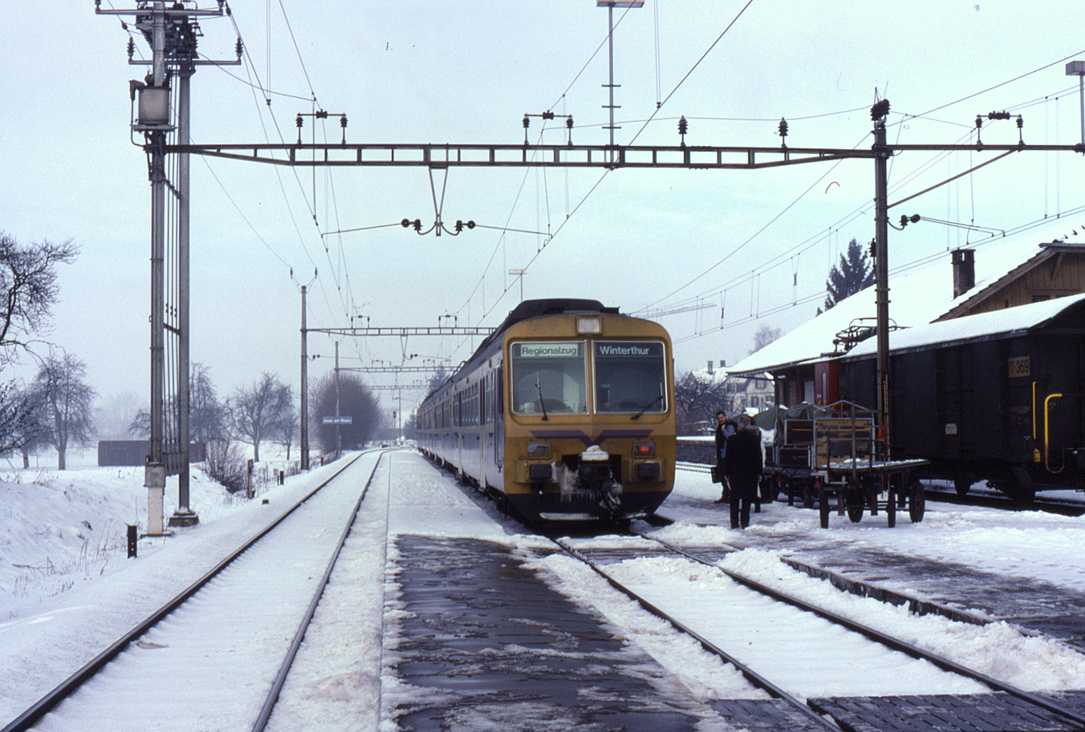 RABDe 8/16 no. 2002 at Stein am Rhein on 10 February 1991. Train 8231, 09:10 Winterthur to Stein am Rhein.